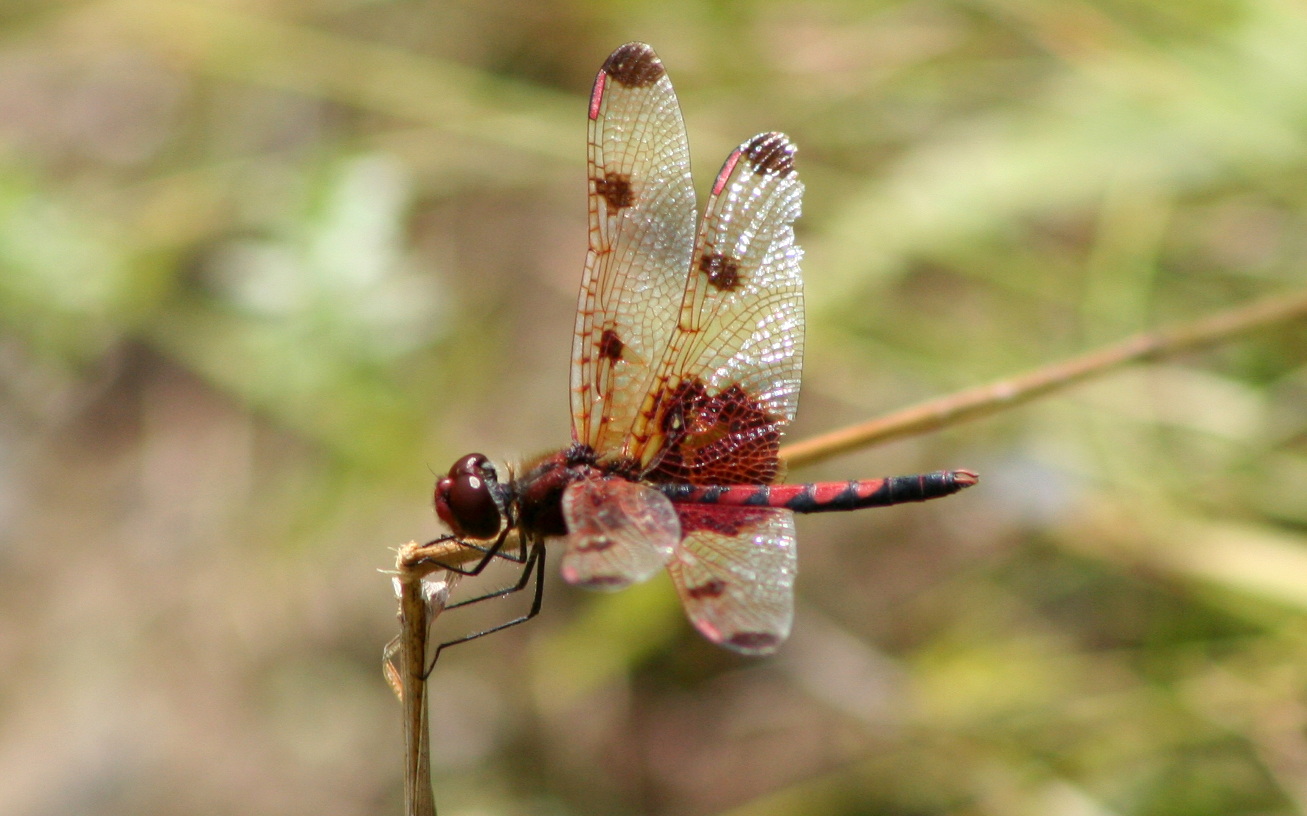 Anisoptera (Dragonfly), Celithemis_elisa (Calico Pennant), photographed in the Town of Skaneateles, Onondaga County, New York.